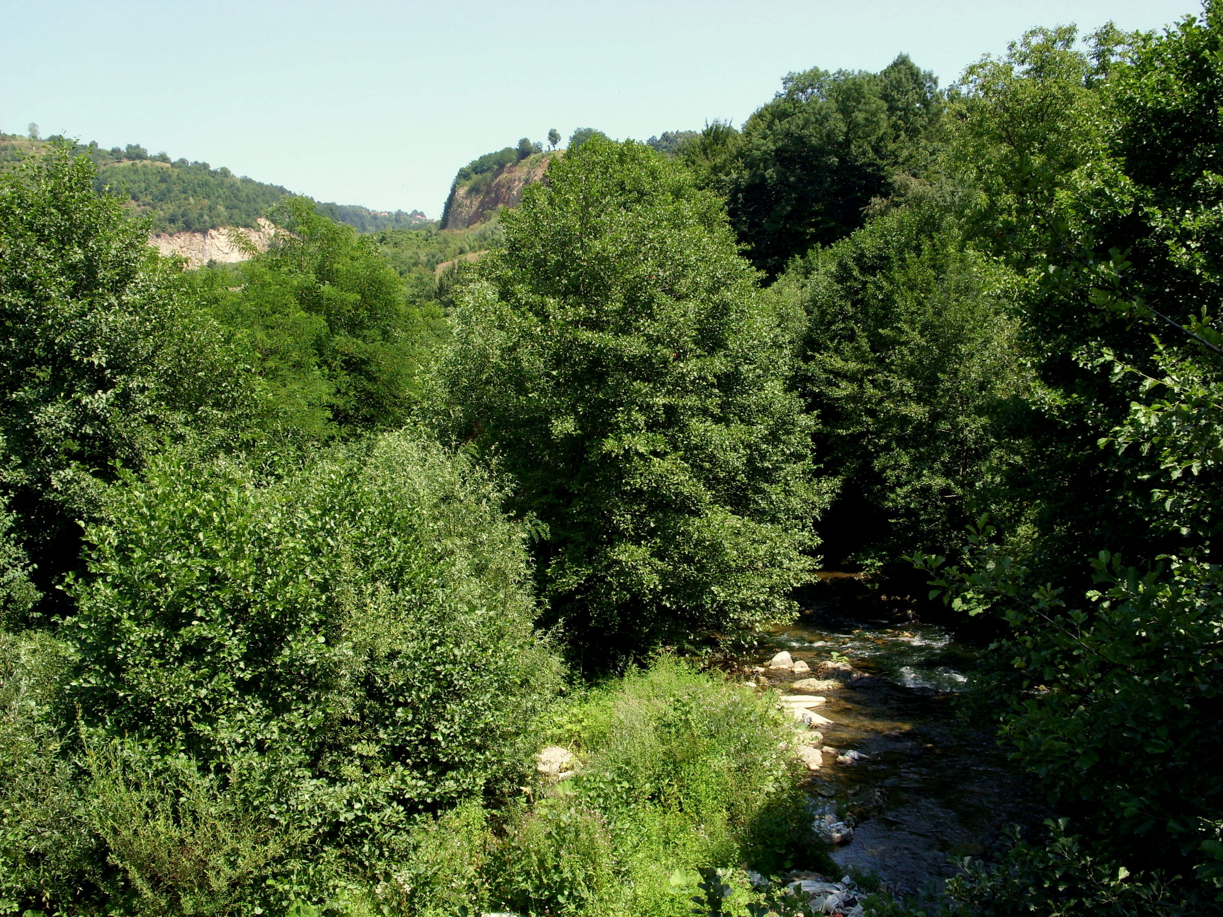 River Janja near Ugljevik, Bosnia and Herzegovina.